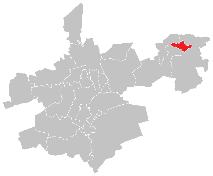 Location map of Olomouc district Radíkov